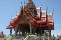 Prasatsit Temple